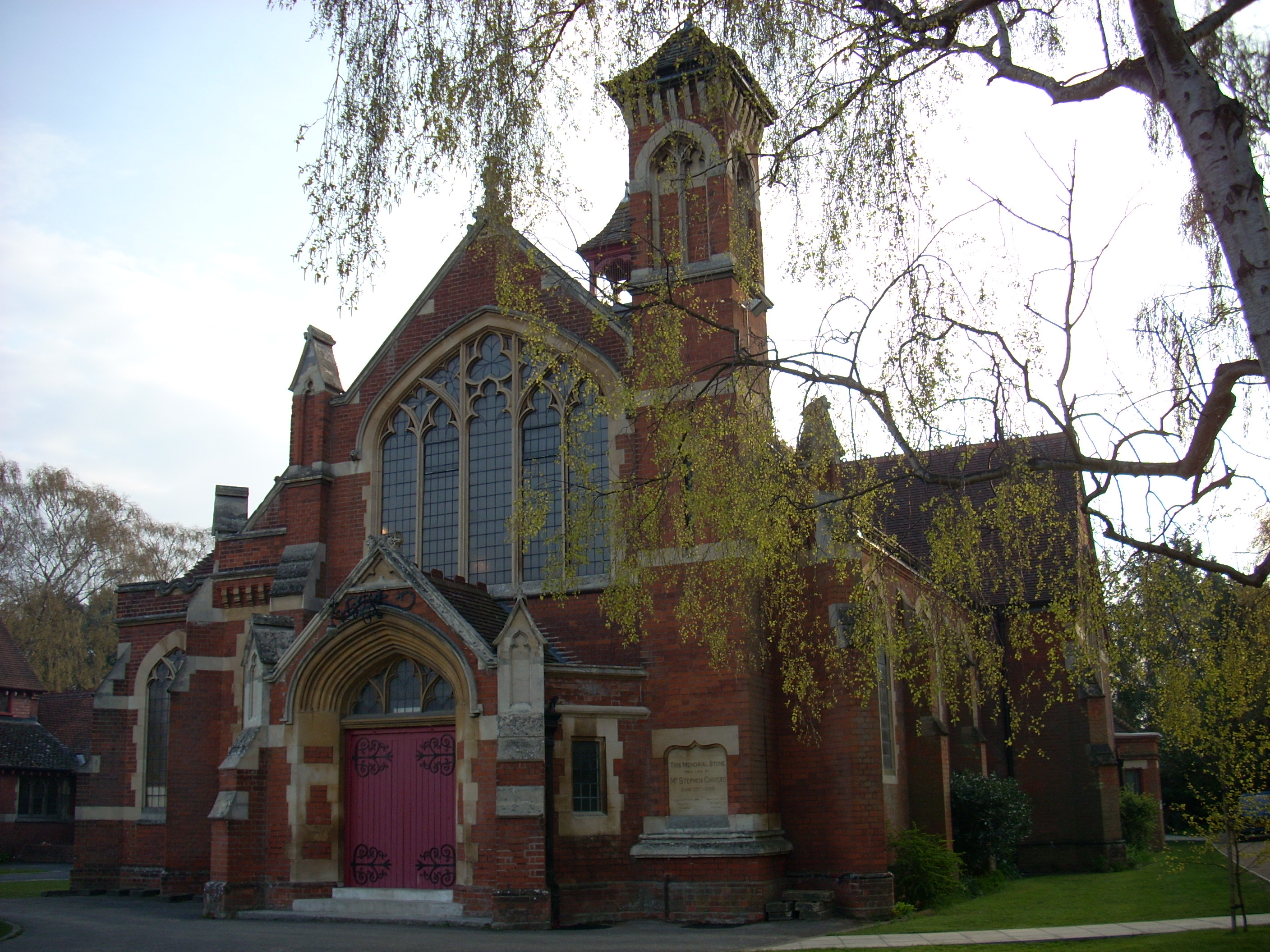 Baptist Church, Histon, Cambridgeshire